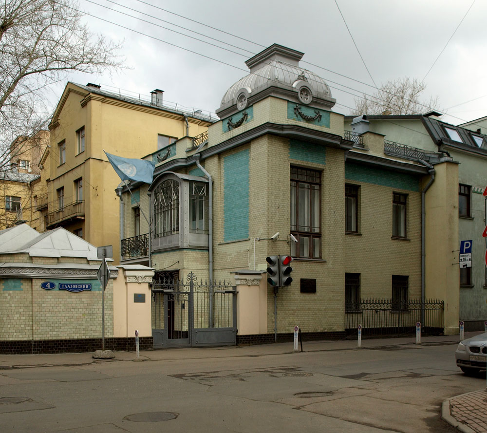 Pavlov House, UN mission in Moscow (corner of Glazovsky and Denezhny lanes).